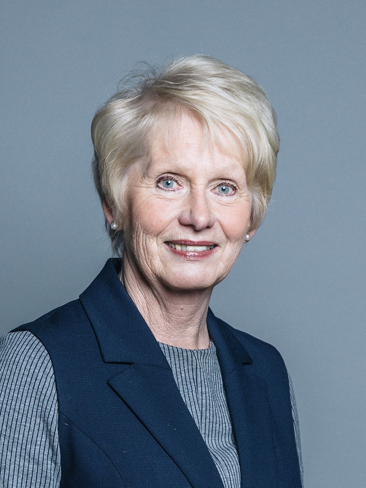 Official parliamentary photo of Baroness Redfern